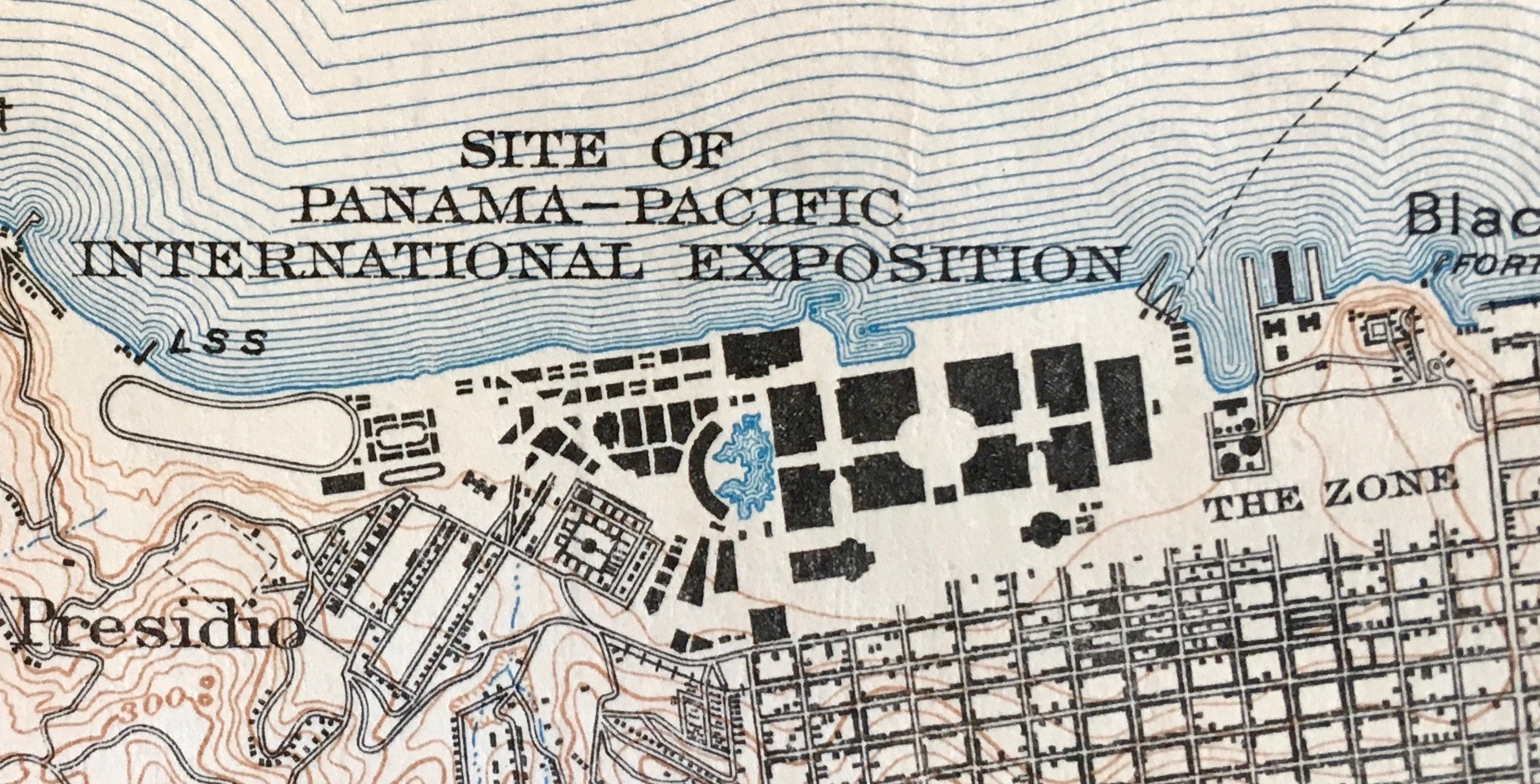 Map of Exposition